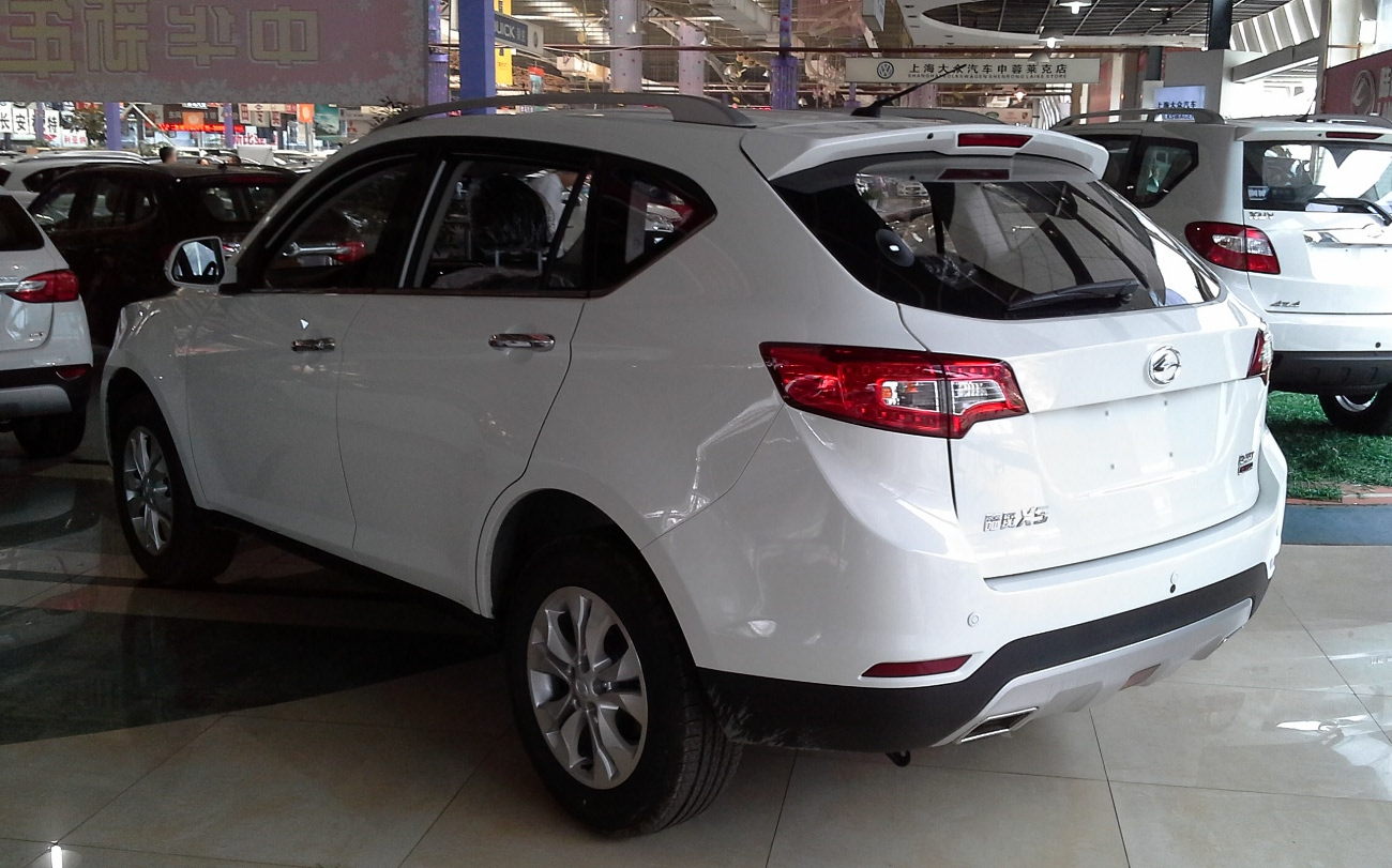 Landwind X5 photographed in Chengdu, Sichuan province, China.